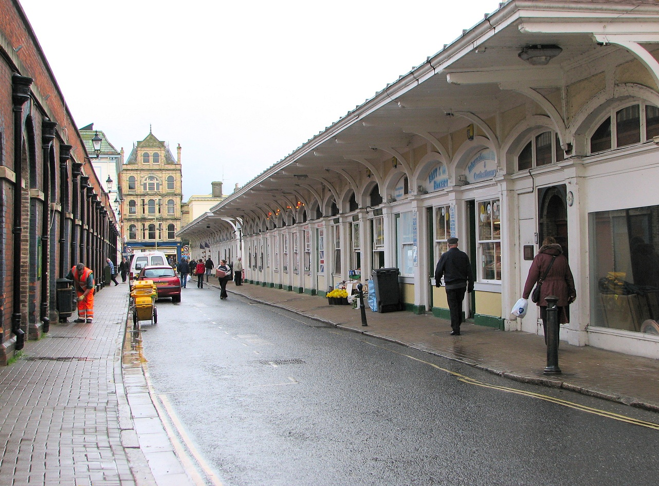 Butchers Row, Barnstaple, North Devon, England